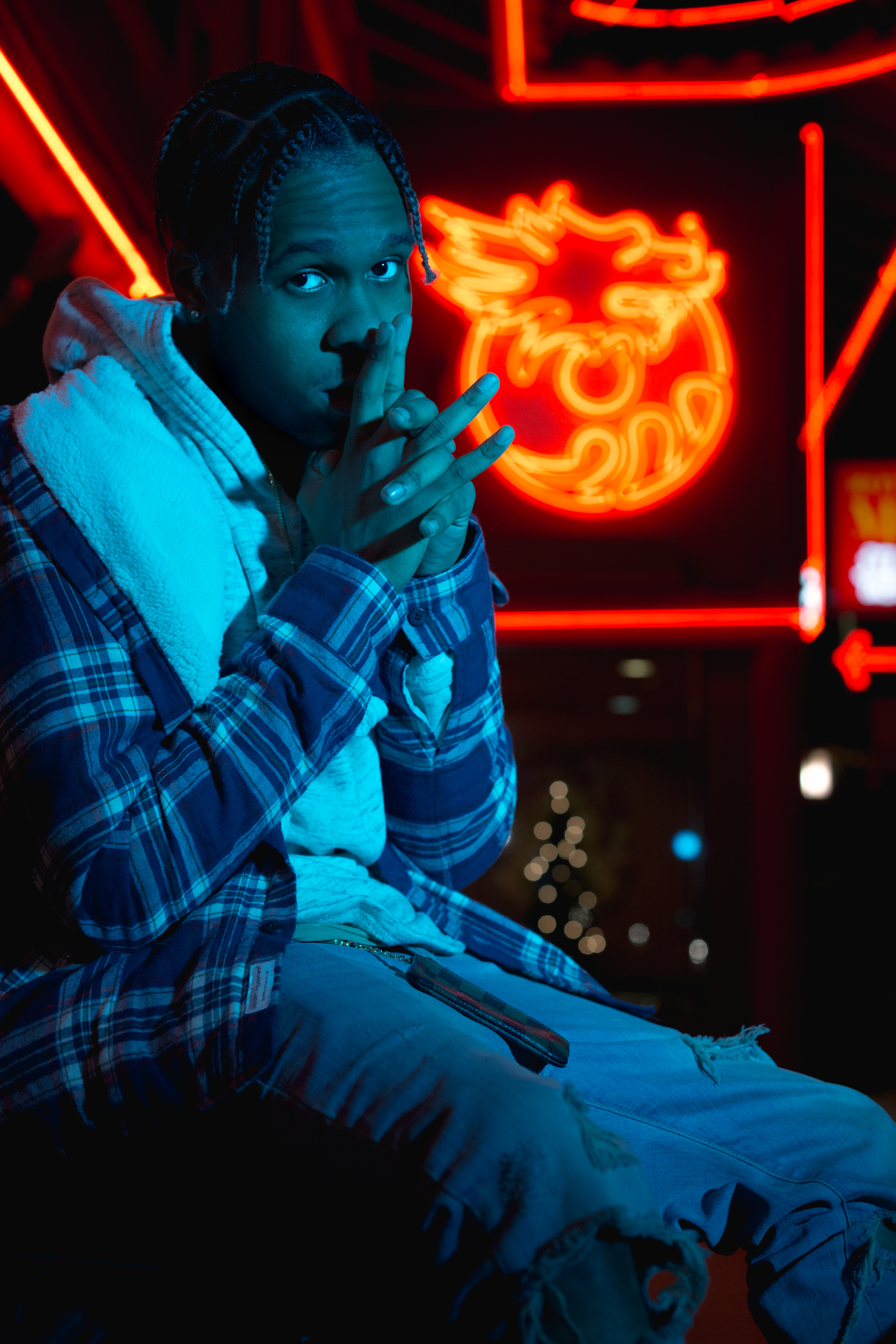 Maestro EP shoot